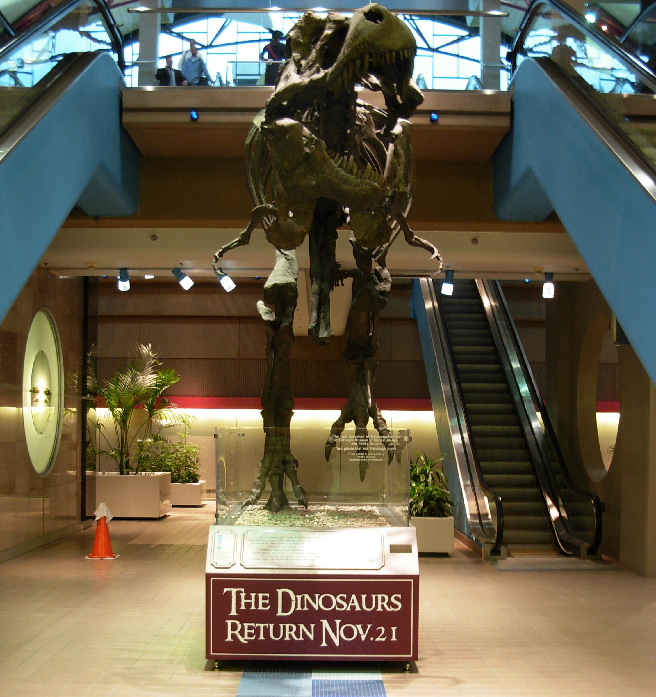 Tyrannosaurus skeleton (the specimen MOR 555, aka. "Wankel Rex", found by Kathy Wankel 1988).